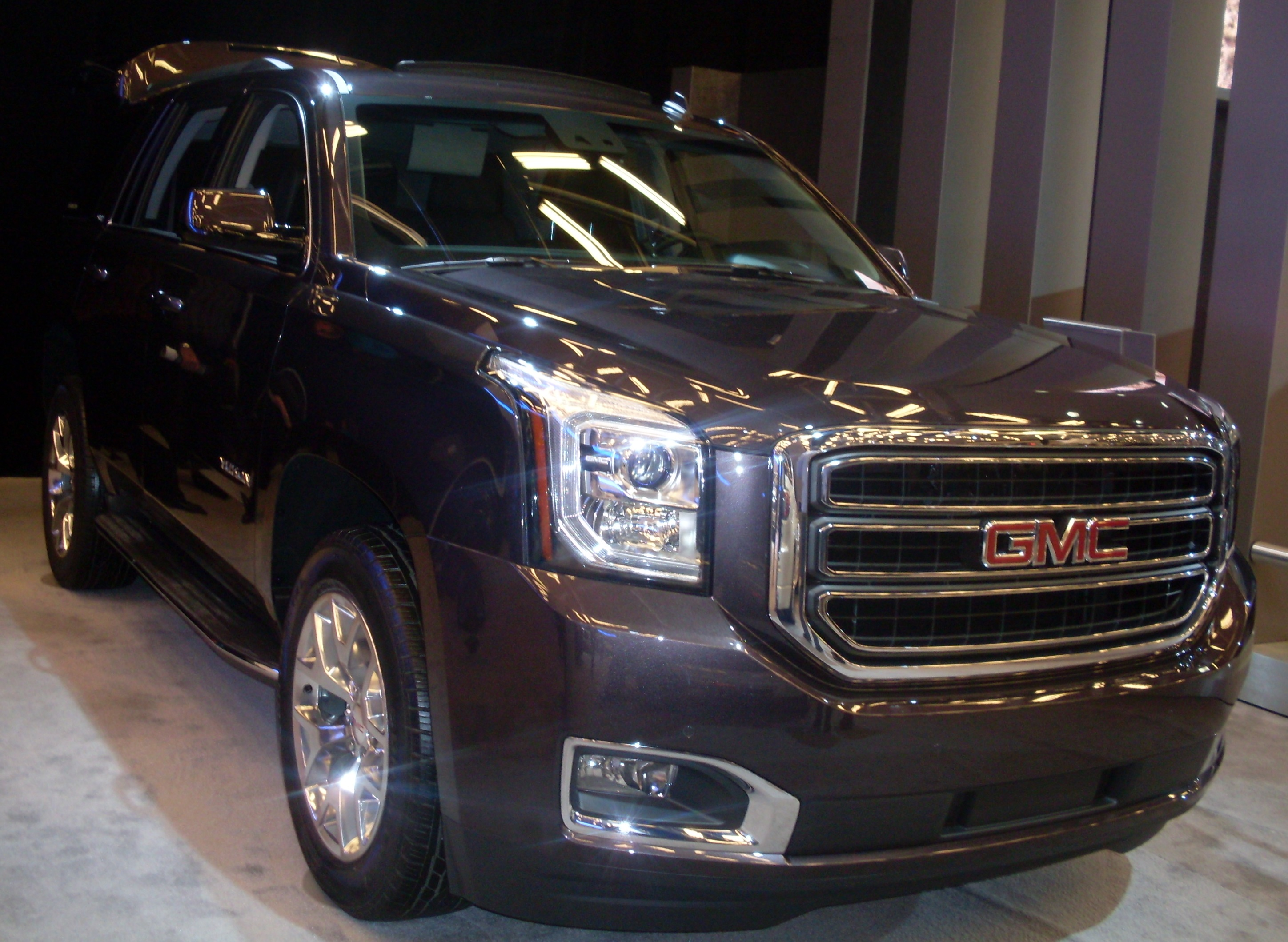 2015 GMC Yukon photographed in Montreal, Quebec, Canada at the 2014 Montreal International Auto Show.